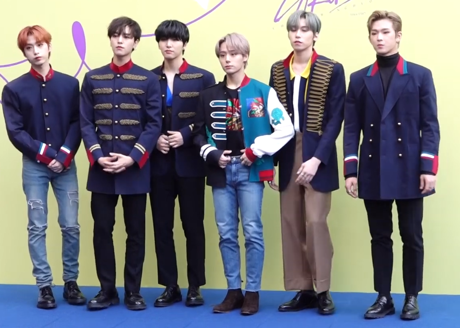 Oneus at Seoul Fashion Week on October 15, 2019.